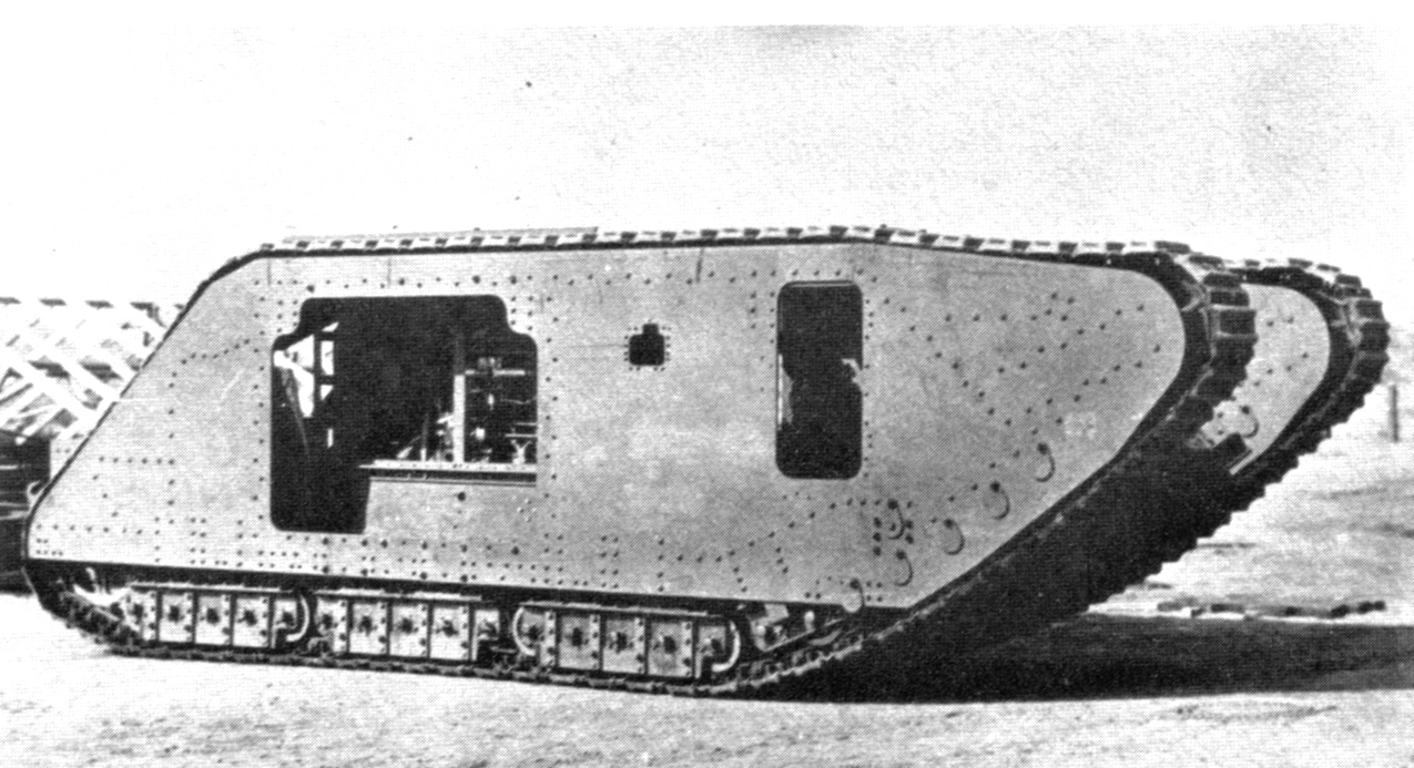 Photo of the A7V-U-prototype.